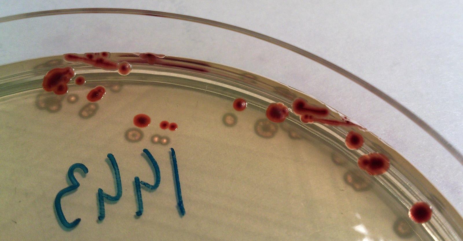 Campylobacter jejuni colonies on CASA chromogenic medium, isolated from a canine stool sample.